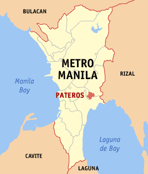 Locator map of Pateros in Metro Manila, Philippines.